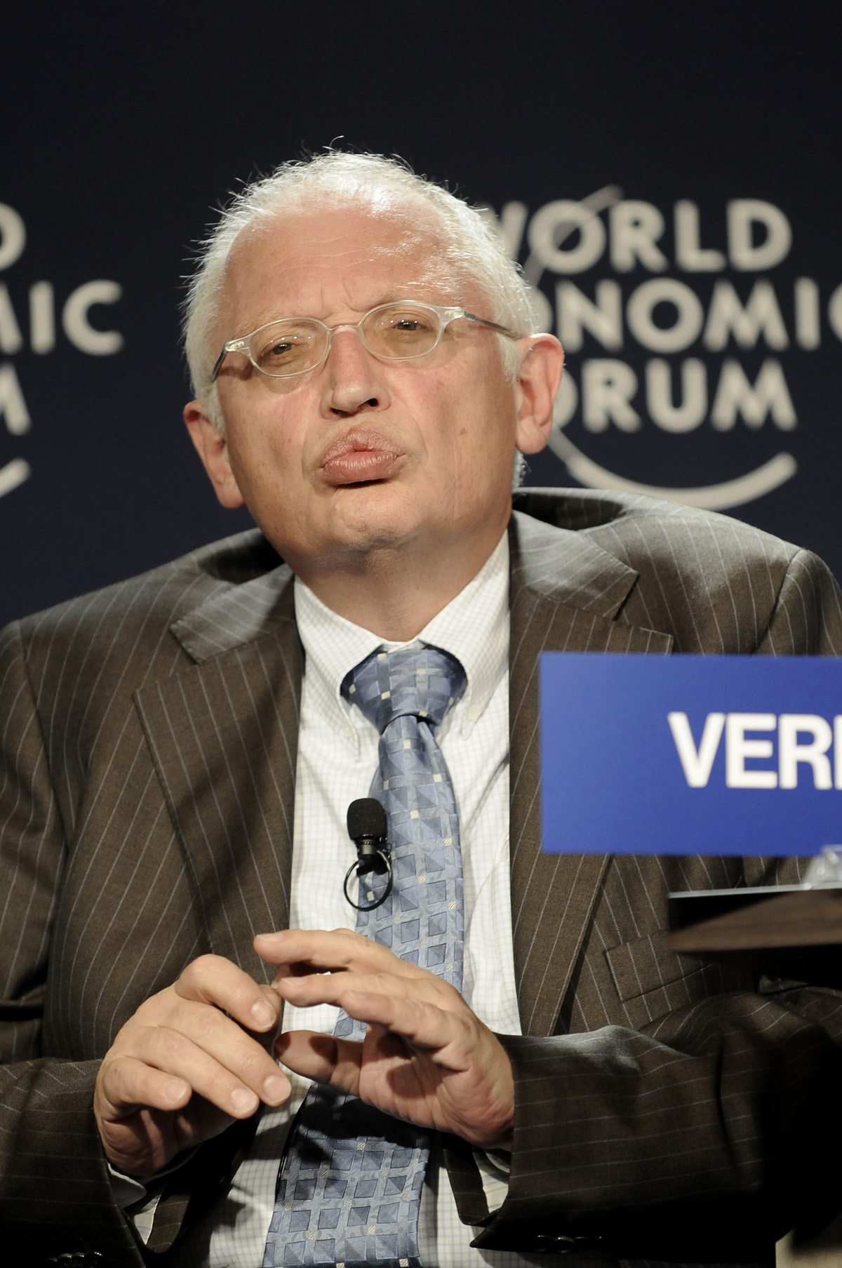 ISTANBUL/TURKEY, 01NOV08 - Günter Verheugen, Vice-President and Commissioner, Enterprise and Industry, European Commission, Brussels at the World Economic Forum on Europe and Central Asia in Istanbul, 30 October - 1 November 2008.